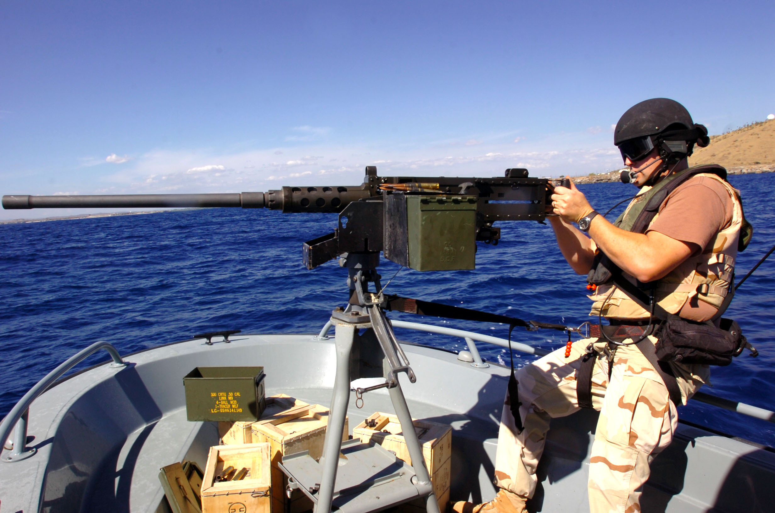 Coast Guard Petty Officer 3rd Class Gene Cox, a boatswain's mate with Coast Guard Reserve Port Security Unit 305, aims a Browning M-2 .50-caliber machine gun at a floating target during a firing exercise, Jan. 14. PSU 305 is currently deployed to Joint Task Force Guantanamo to provide maritime anti-terrorism safety and security for the water around JTF Guantanamo and U.S. Naval Station Guantanamo Bay. JTF Guantanamo conducts safe, humane, legal and transparent care and custody of detained enemy combatants, including those convicted by military commission and those ordered released. The JTF conducts intelligence collection, analysis and dissemination for the protection of detainees and personnel working in JTF Guantanamo facilities and in support of the Global War on Terror. JTF Guantanamo provides support to the Office of Military Commissions, to law enforcement and to war crimes investigations. The JTF conducts planning for and, on order, responds to Caribbean mass migration operations.